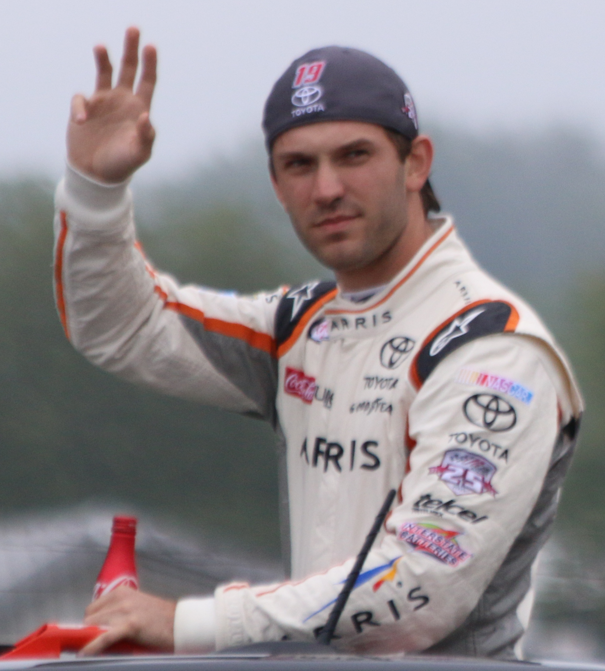 NASCAR driver Daniel Suarez at the 2016 Road America 180.